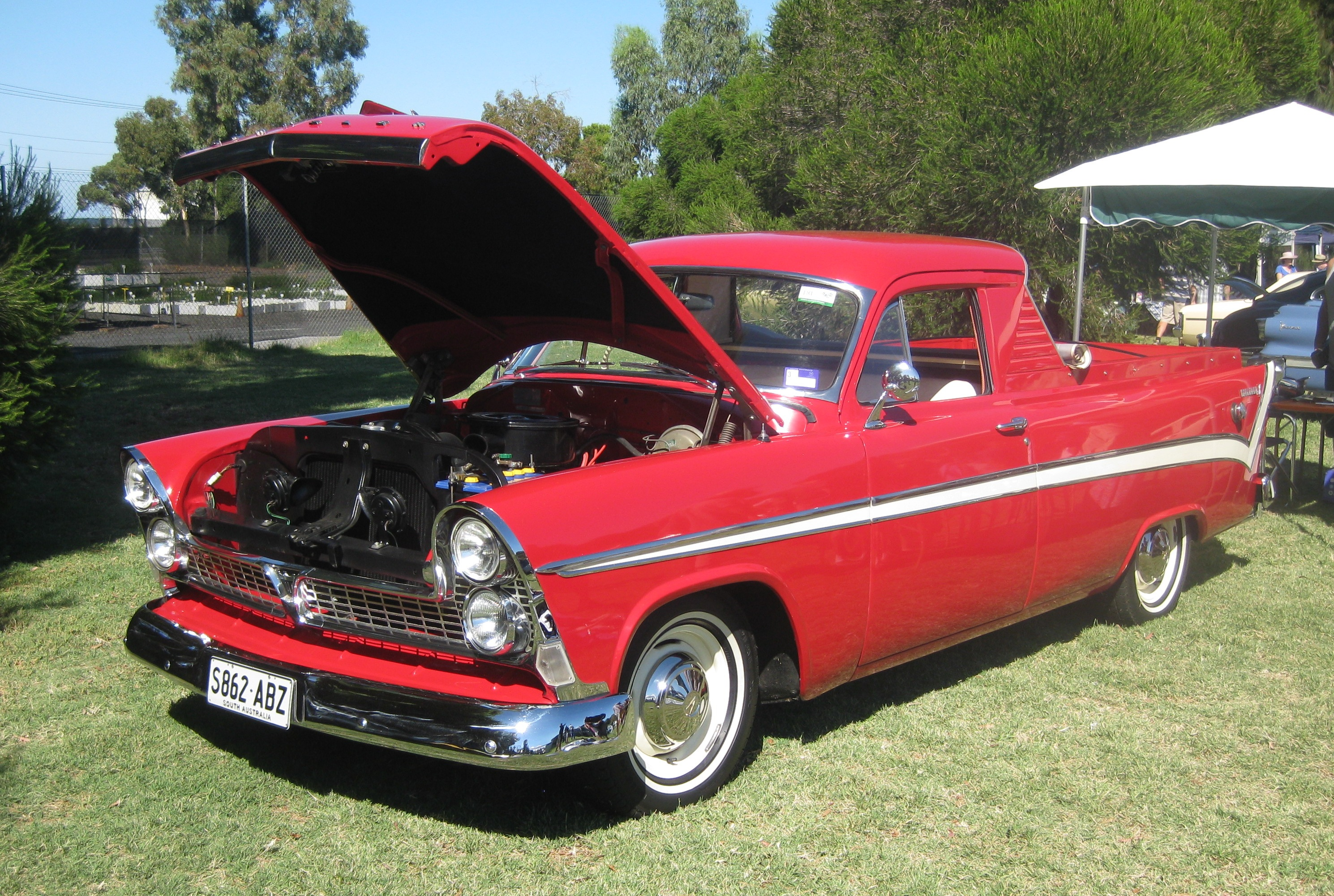 Chrysler AP3 Wayfarer as produced by Chrysler Australia from 1960 to 1963.